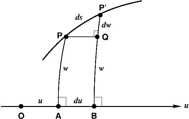 Line element ds in hyperbolic Lobachevsky coordinates (u,w)